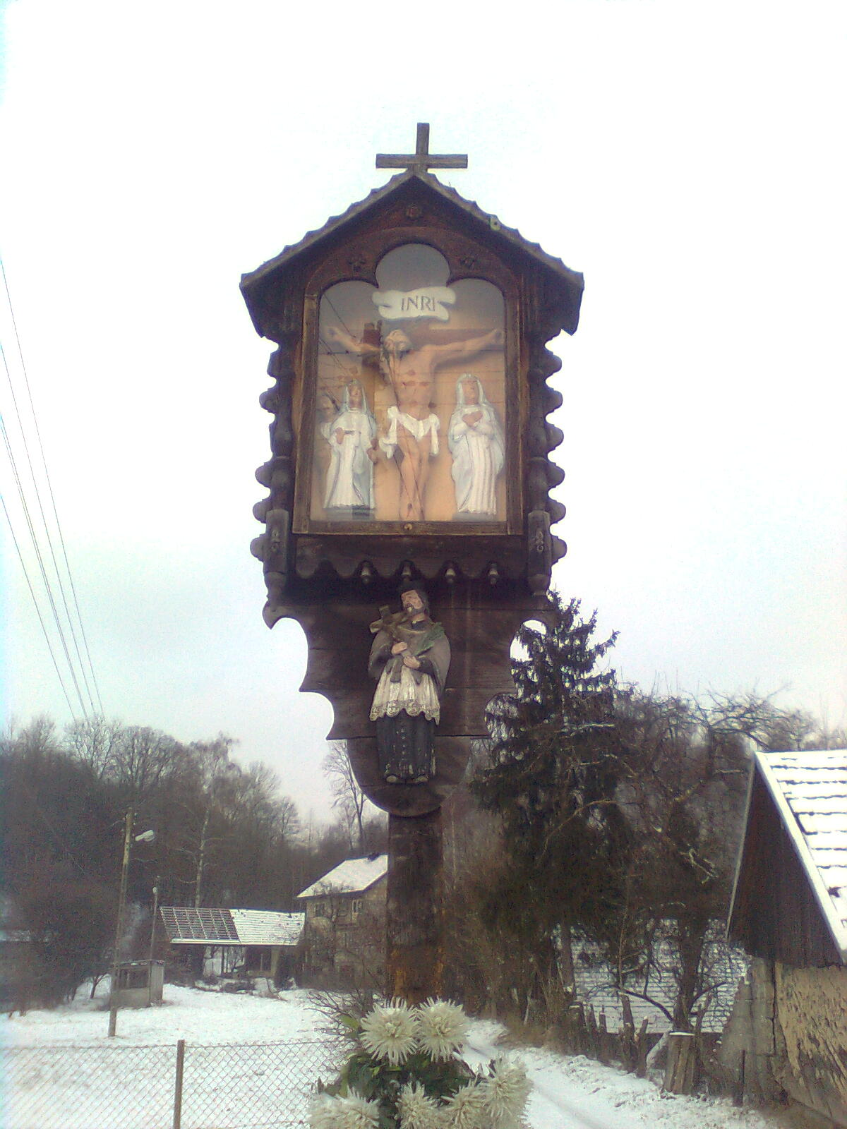 Wayside shrine of Calvary in Podegrodzie (Lesser Poland Voivodeship)